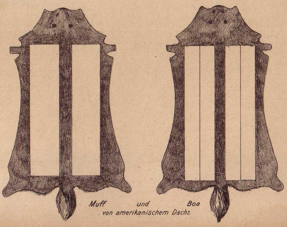 Graphics for Furriers